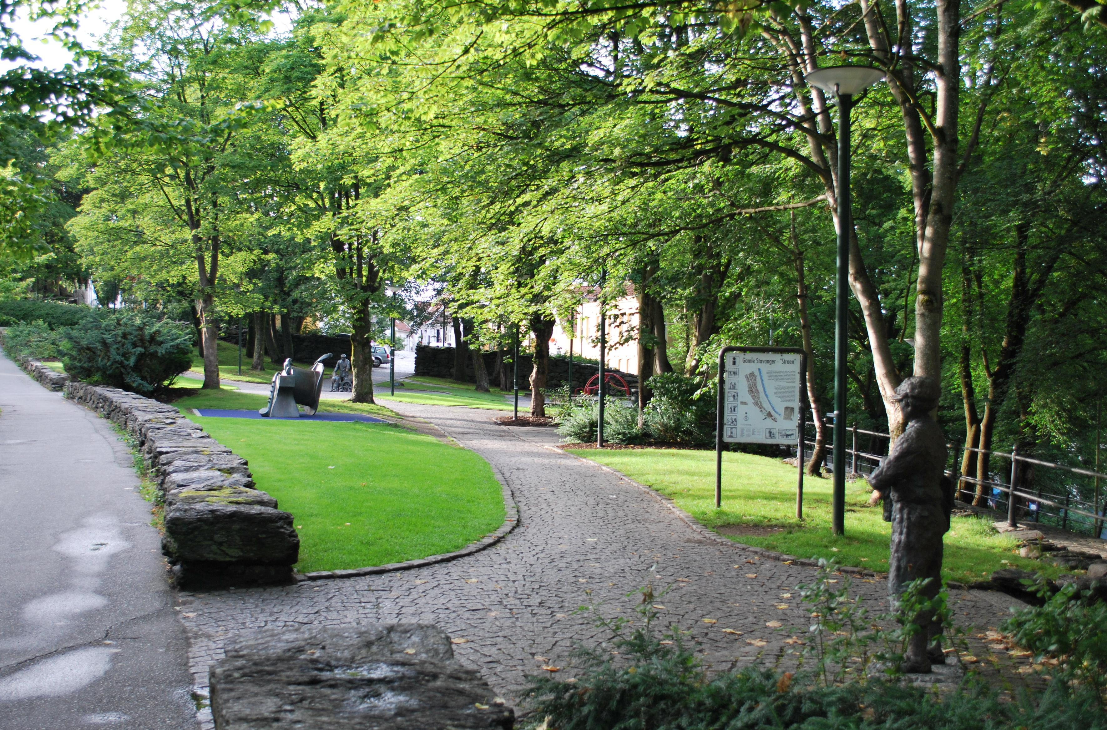 Lendeparken, named after Lars Lende, Stavanger, Norway